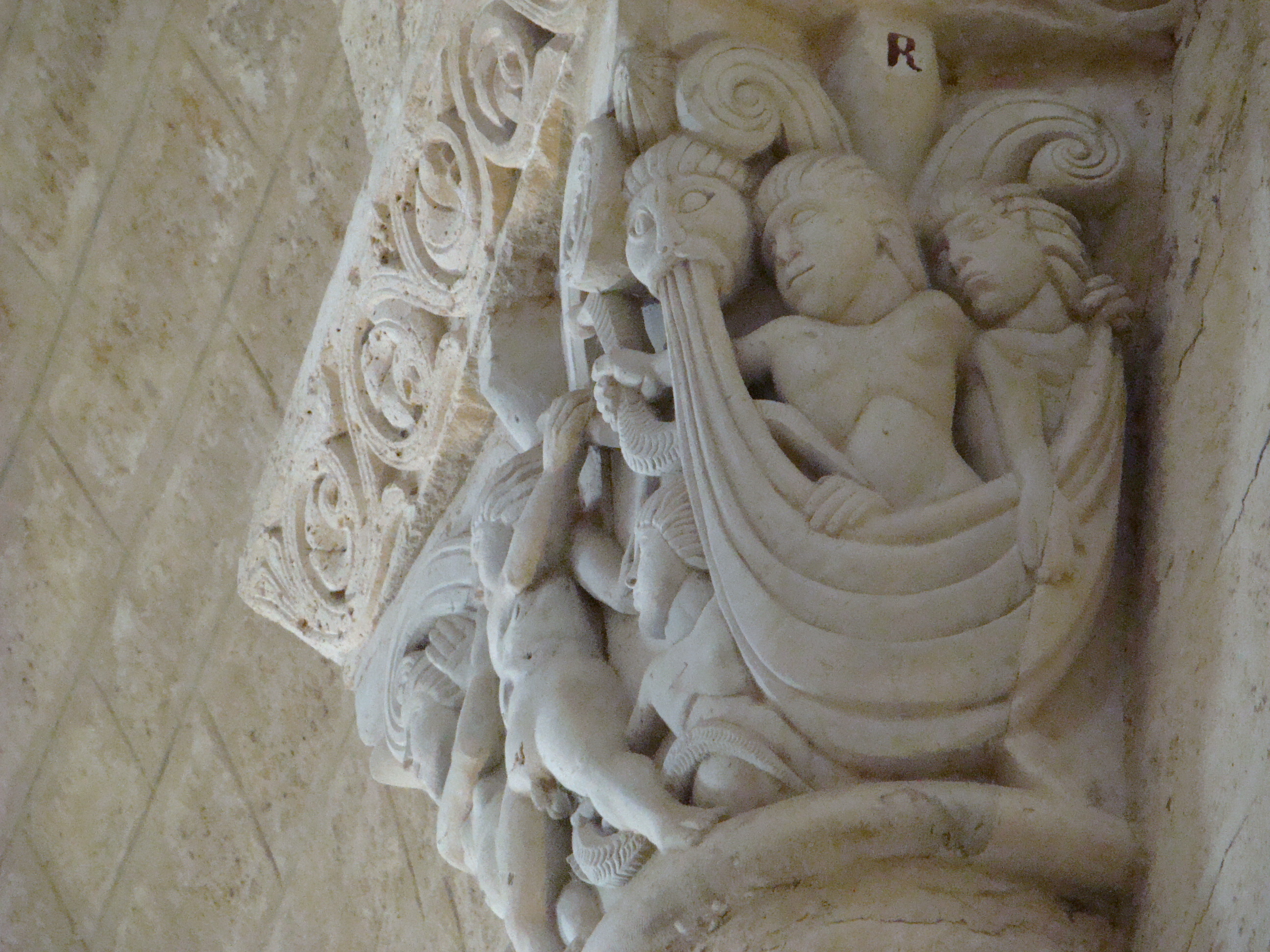 Capital of the Orestiada in the romanesque church of San Martín de Fromista Palencia, Spain. This is a copy, the original is in the archeological museum of Madrid.